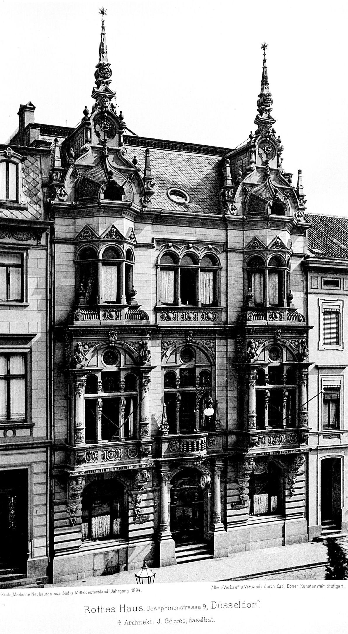 Rothes Haus, Josephinenstraße 9. Düsseldorf